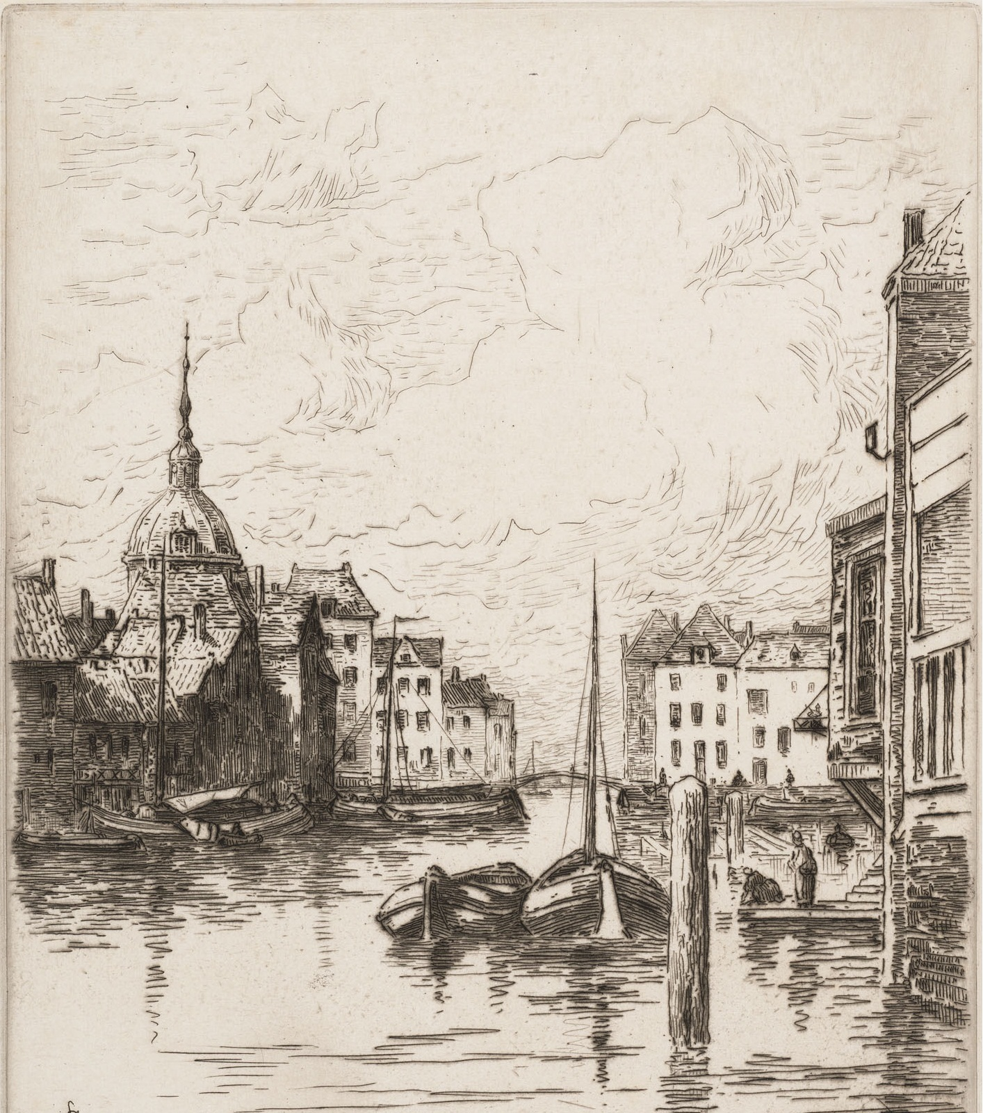 Voorstraatshaven te Dordrecht